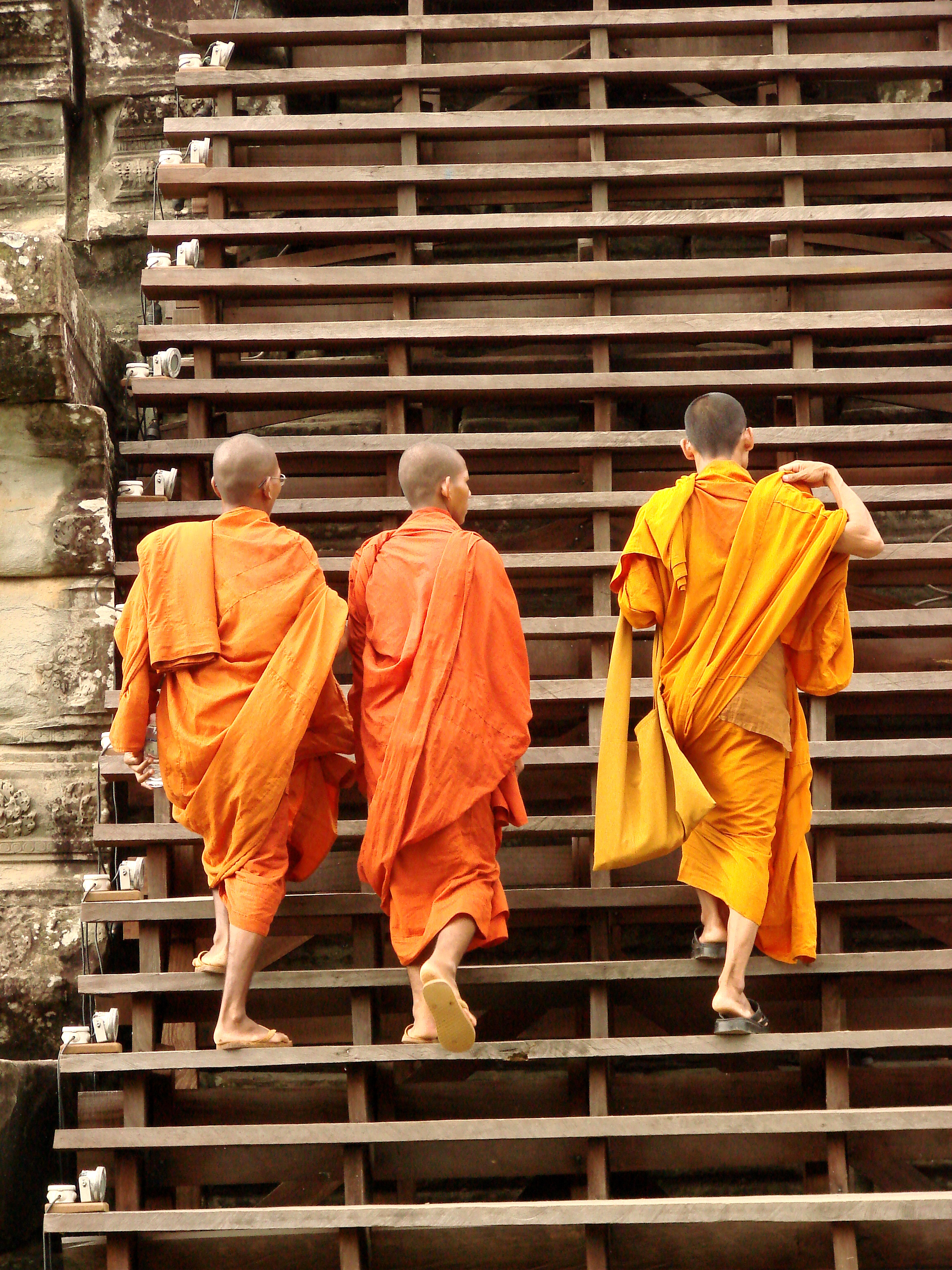 Buddhist monks, Angkor Wat, near Siem Reap, Cambodia. May 2009.